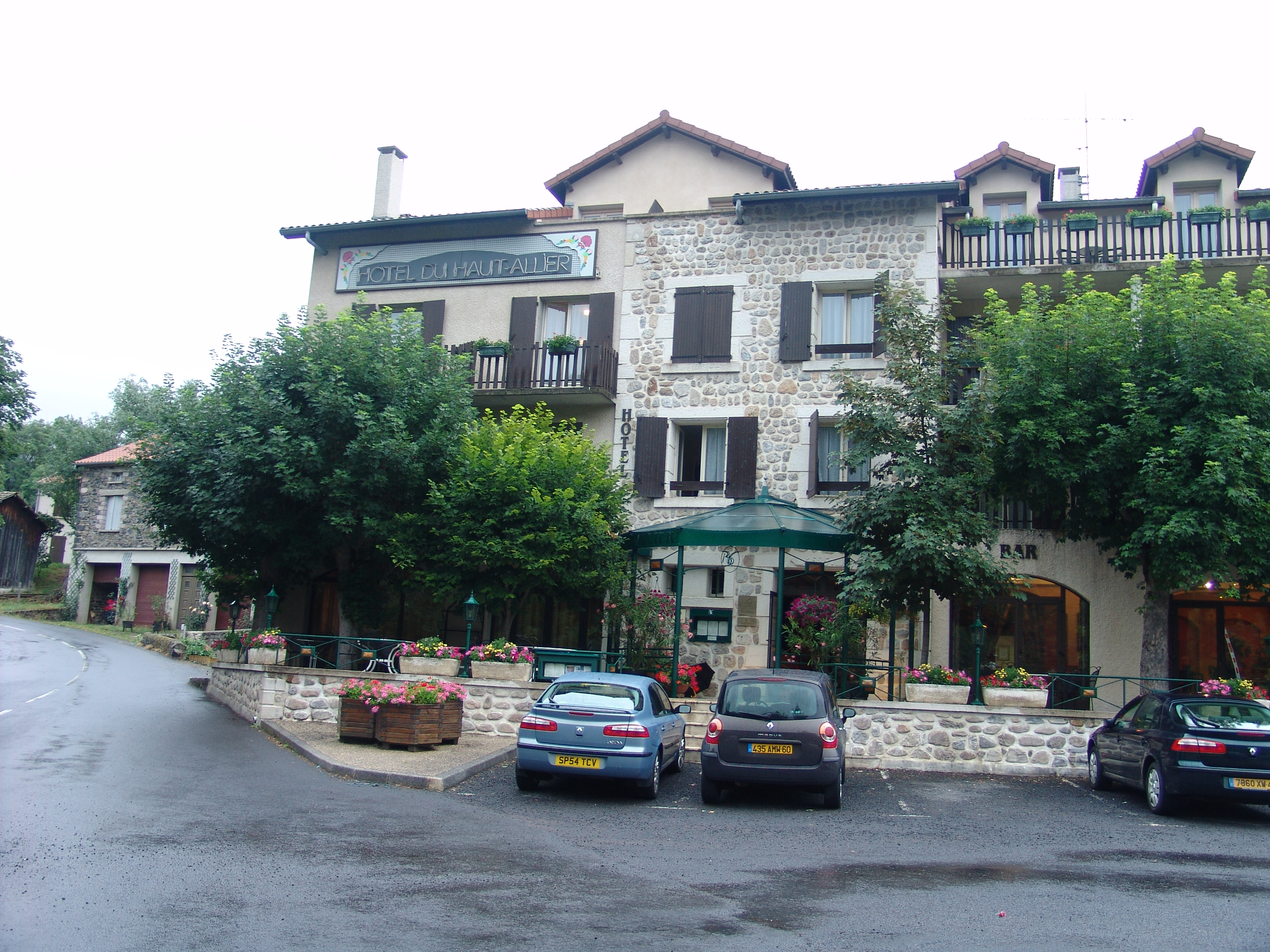 See where this photo was taken at maps.yuan.cc.